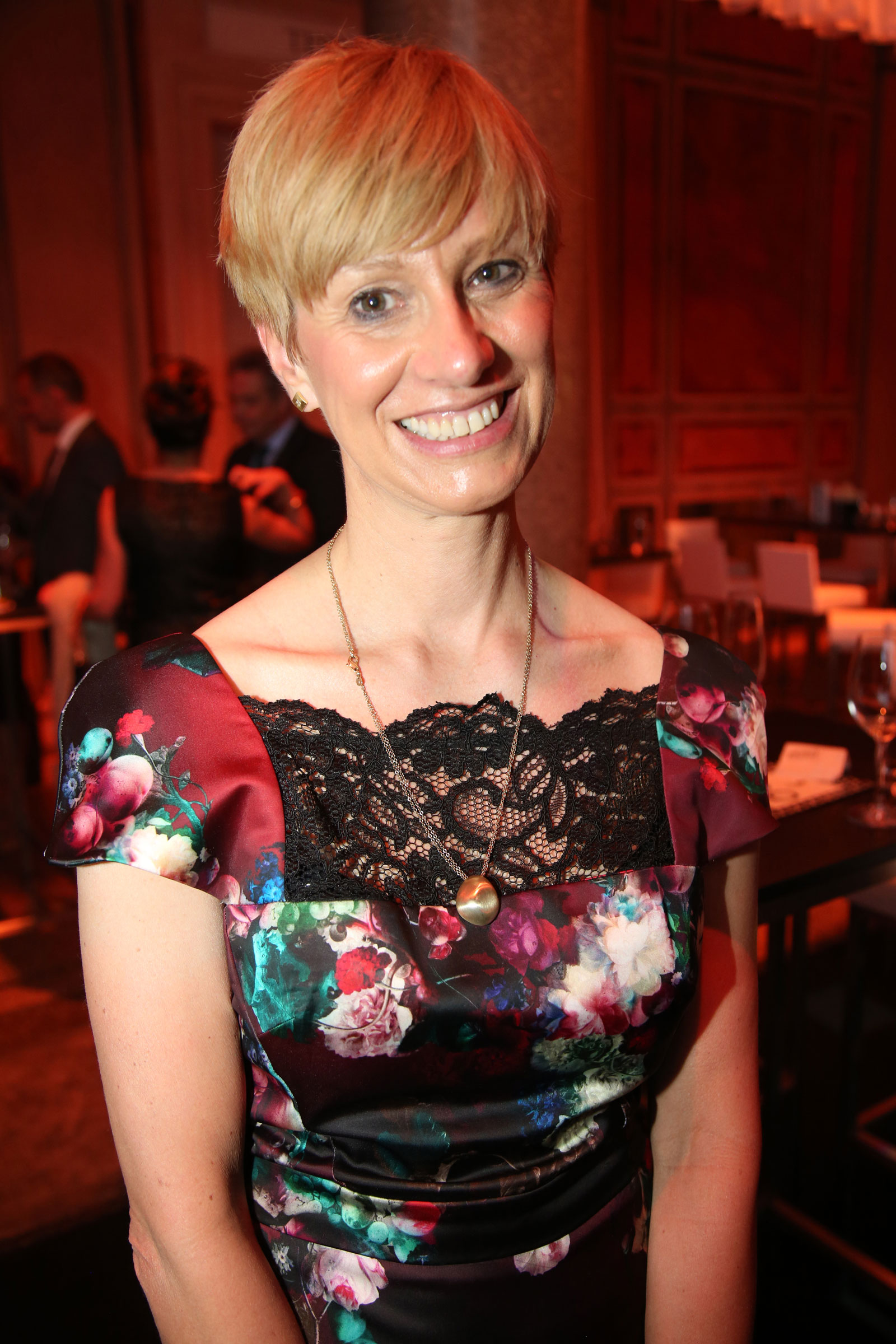 Prof. Dr. Anke Kaysser_Pyzalla, Fachjury